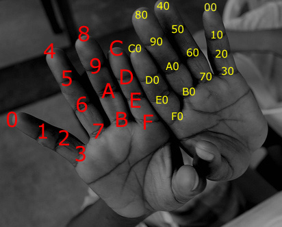 How to count hexadecimal from 00 to FF with the 8 fingers and 2 thumbs.